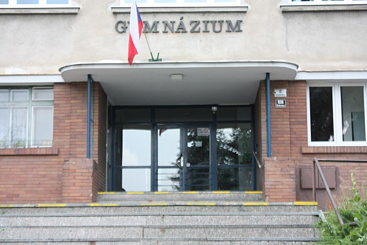 Gymnázium Brno-Řečkovice, entrance